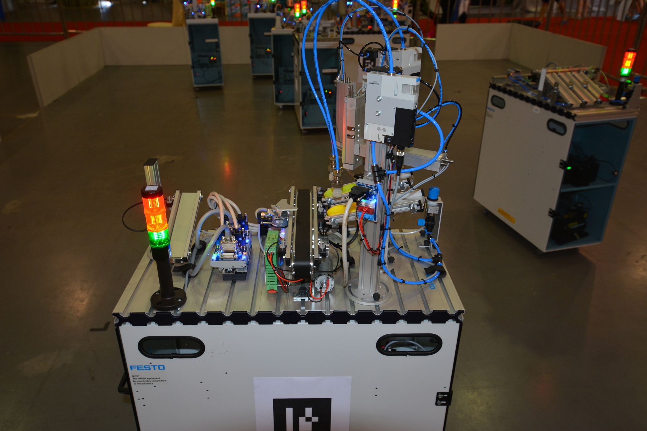 Modular Production System